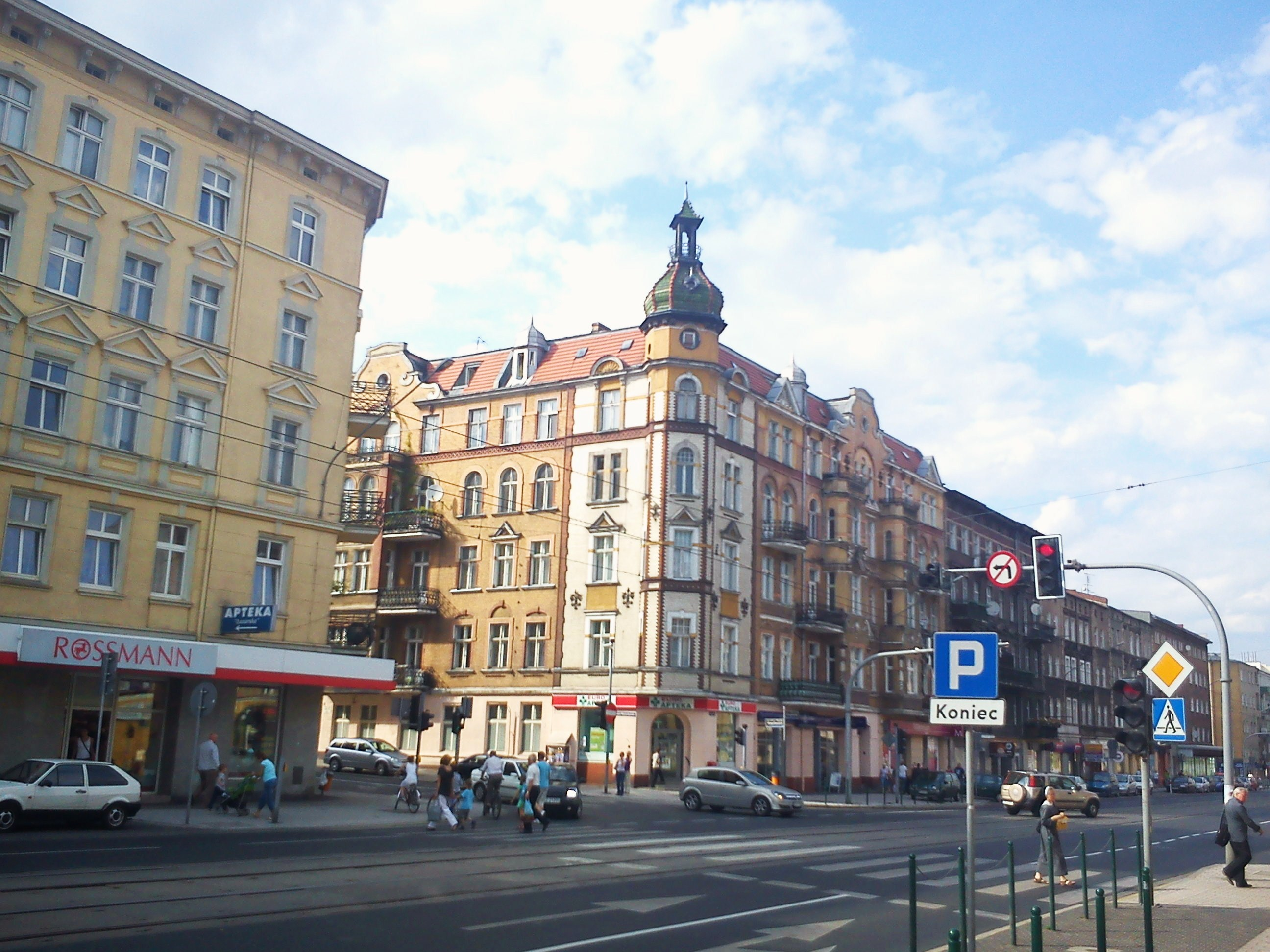 Suwalskich House, Poznan, Glogowska Street.